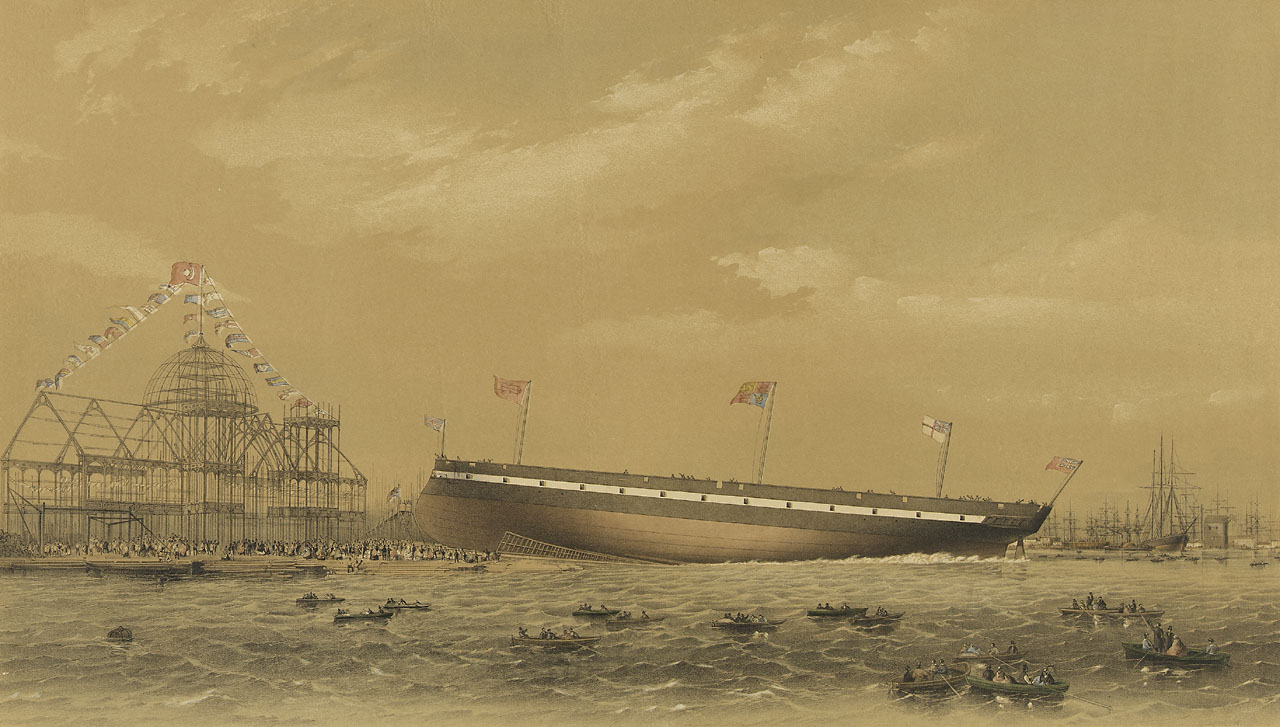 Launch of Her Majestys Iron Armour-plated Steam Frigate Resistance 18 guns 3668 tons from Messrs Westwood, Baillie, Campbell & Cos, London Yard, Isle of Dogs, April 11th 1861 The launch of the iron armour-plated steam frigate 'Resistance'. The 6,070 tons vessel was built at Westwood, Baillie, Campbell & Cos London Yard on the Isle of Dogs. She was 280 feet long, with ram bows, and was armed with 18 guns. Launch of Her Majestys Iron Armour-plated Steam Frigate Resistance 18 guns 3668 tons from Messrs Westwood, Baillie, Campbell & Cos, London Yard, Isle of Dogs, April 11th 1861